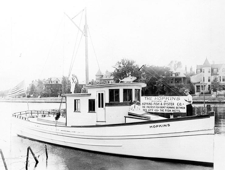 An advertising photograph of the fishing boat Hopkins probably taken at Norfolk, Virginia, prior to her service as the US Navy patrol vessel USS Hopkins (SP-3294). The sign describes her as "the fastest fish boat running between this city and the fish nets."